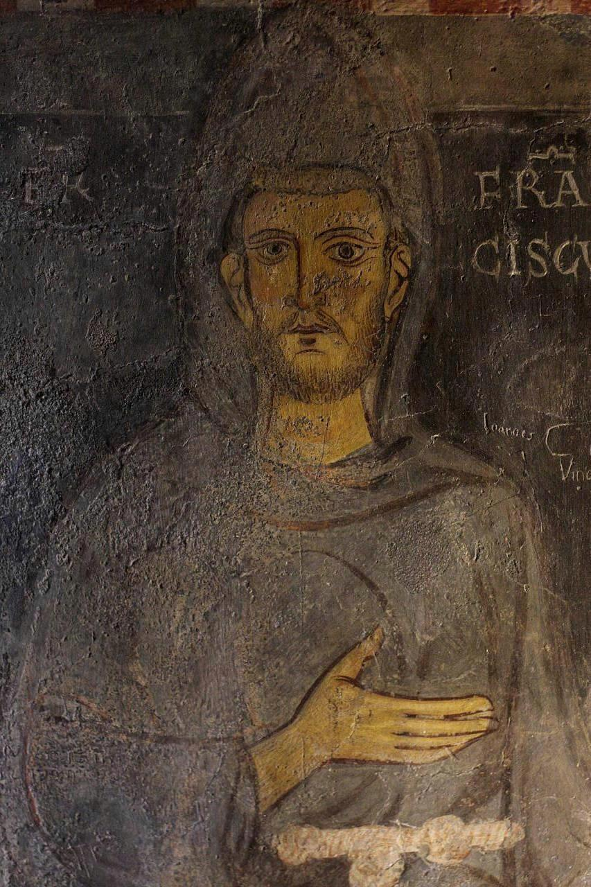 St._Francis._Sacro_Speco_at_Subiaco._Fresco._1224_or_1228